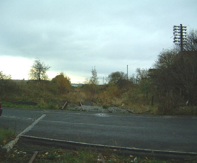 Usworth Railway Station. Well, once upon a time there used to be anyway! The line doesn't even cross the road any more (The Washington Road towards the Nissan factory and Sunderland)! This is looking south to where the station used to be. The line continues down to Penshaw Junction (where Pensaw Park tennis courts and bowling green are) - the northern-bound trains would split between those north to Newcastle and those North-East to Sunderland. The North-Easterly direction is now a good walk which ends up at the relatively new metro station South Hylton, the furthest outpost on the Tyne & Wear Metro system.